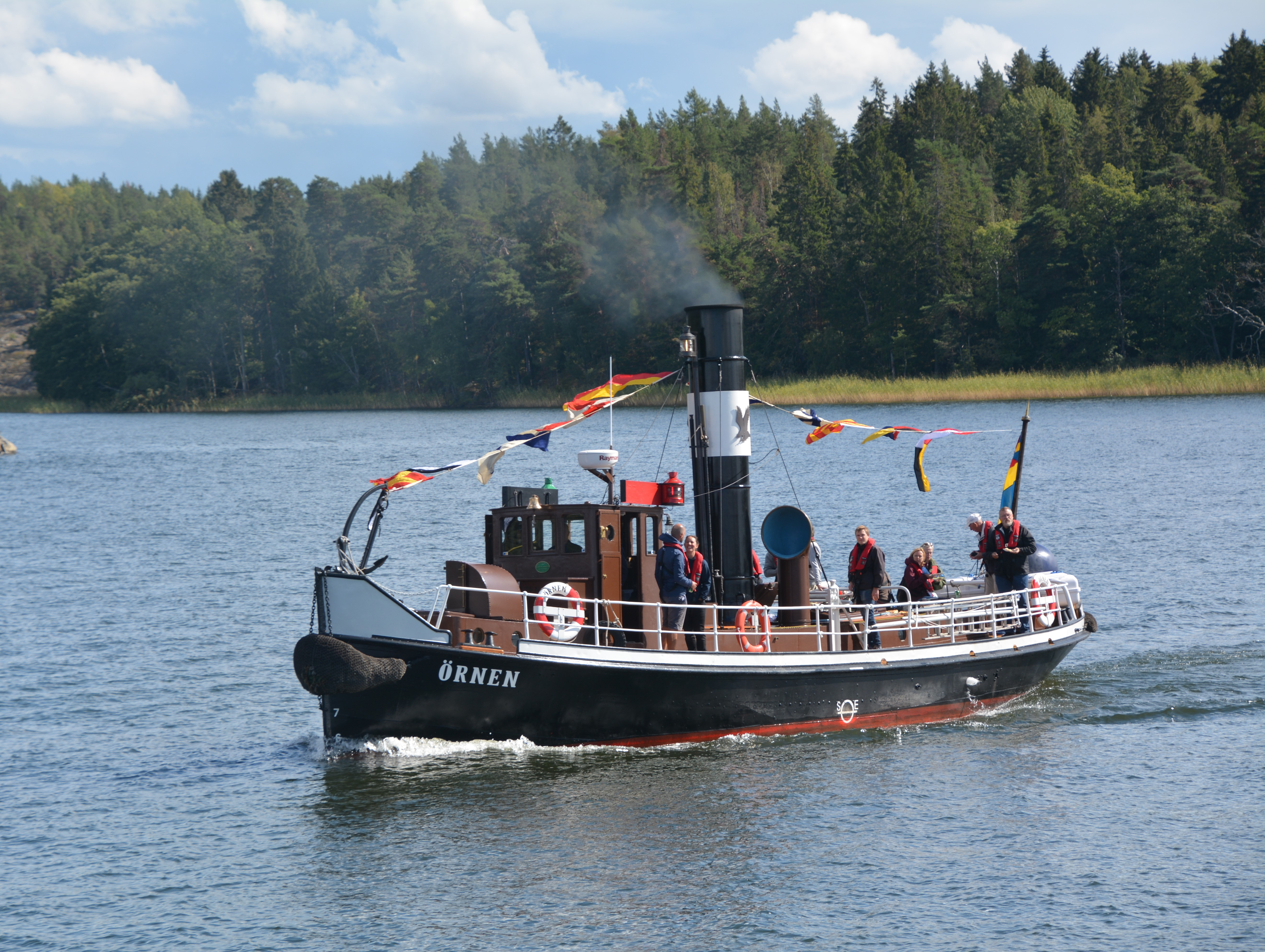 Steam tug Örnen, Västerås, Sweden